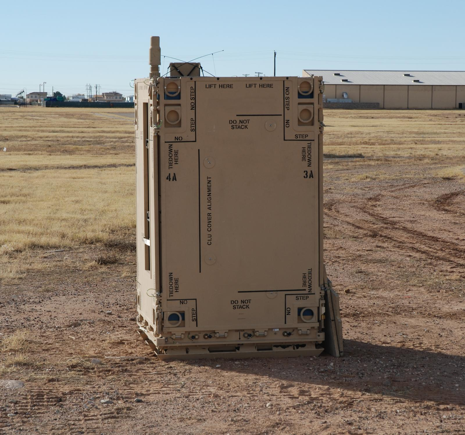 XM501 Non Line of Sight - Launch System just standing in the middle of nowhere